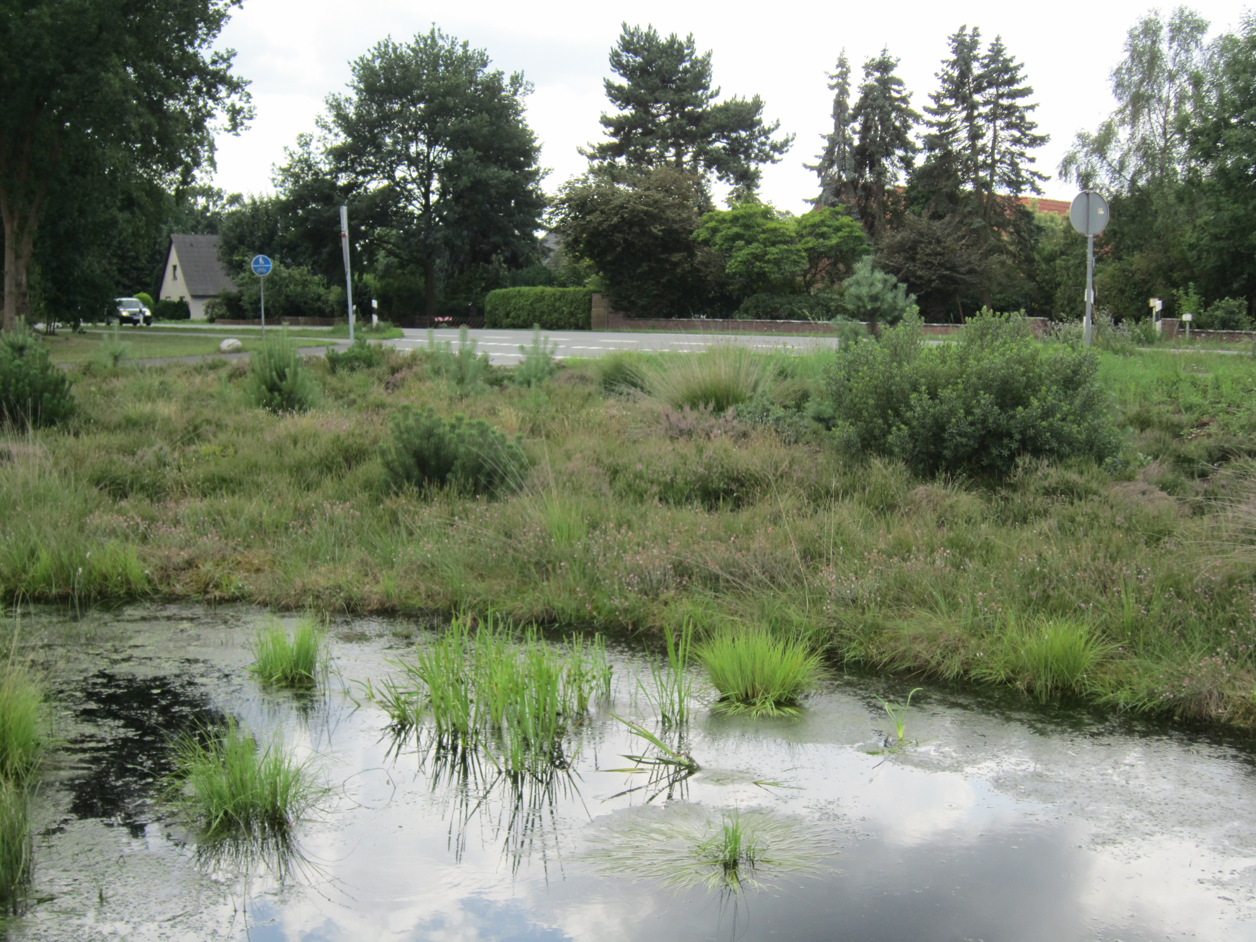 Diepholzer Straße (B 69) south of Vechta